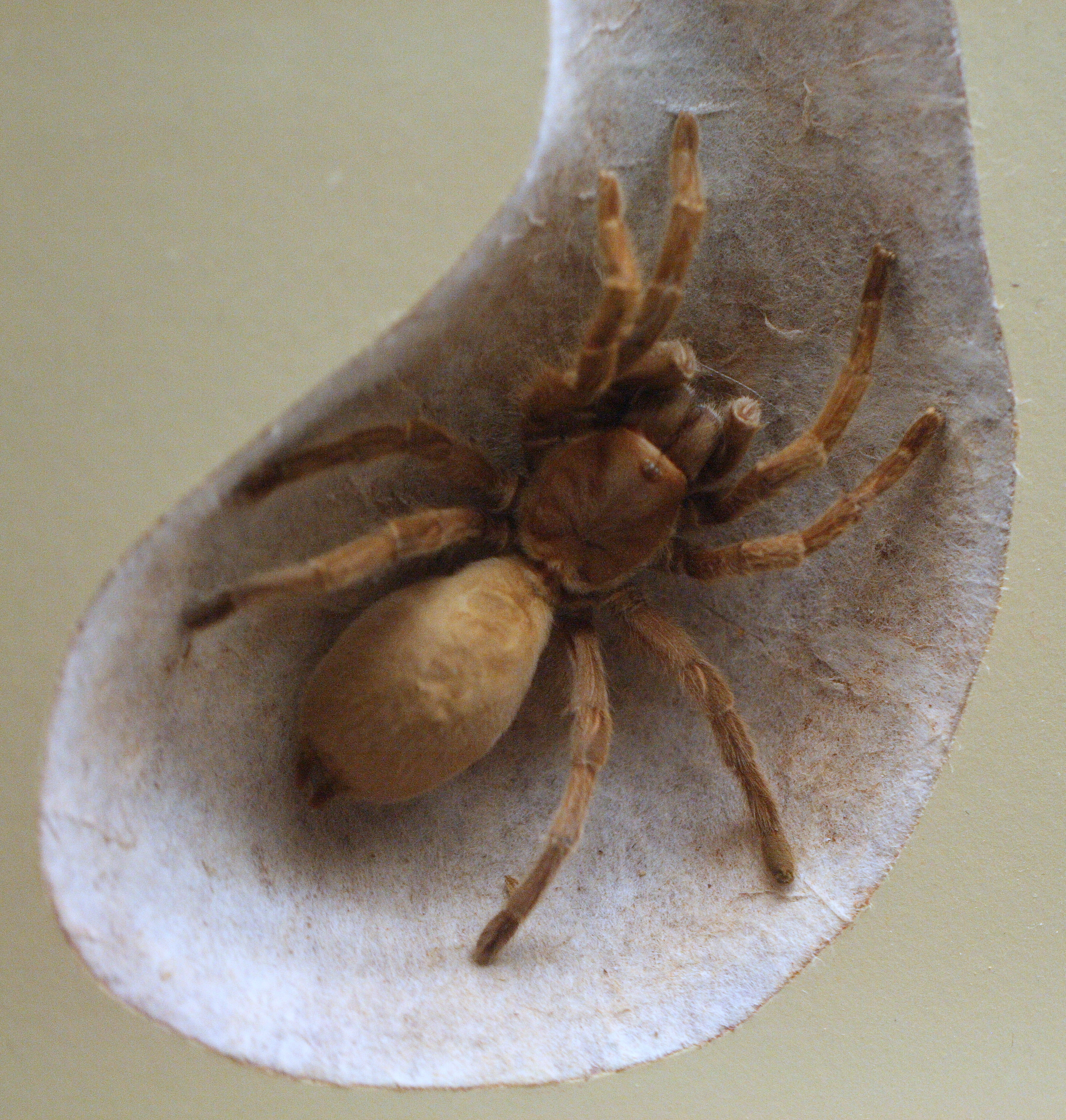 Specimen in the Australian Museum spider display.